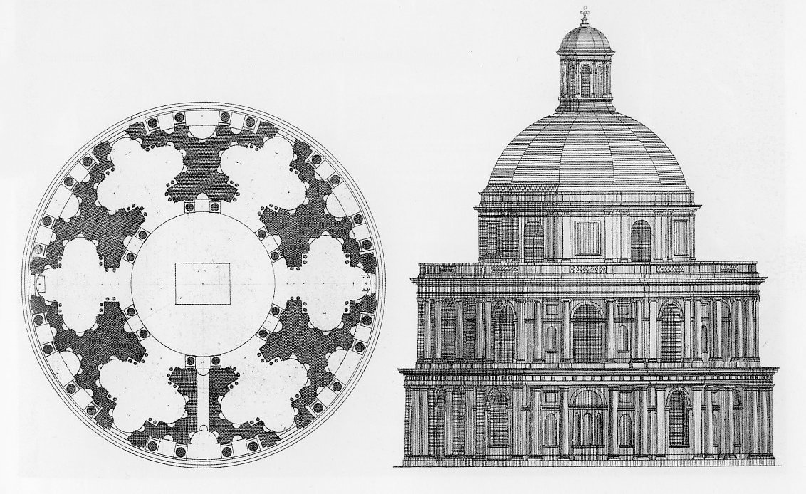 Engraving of plan and elevation of the Valois Chapel at St Denis, Paris.